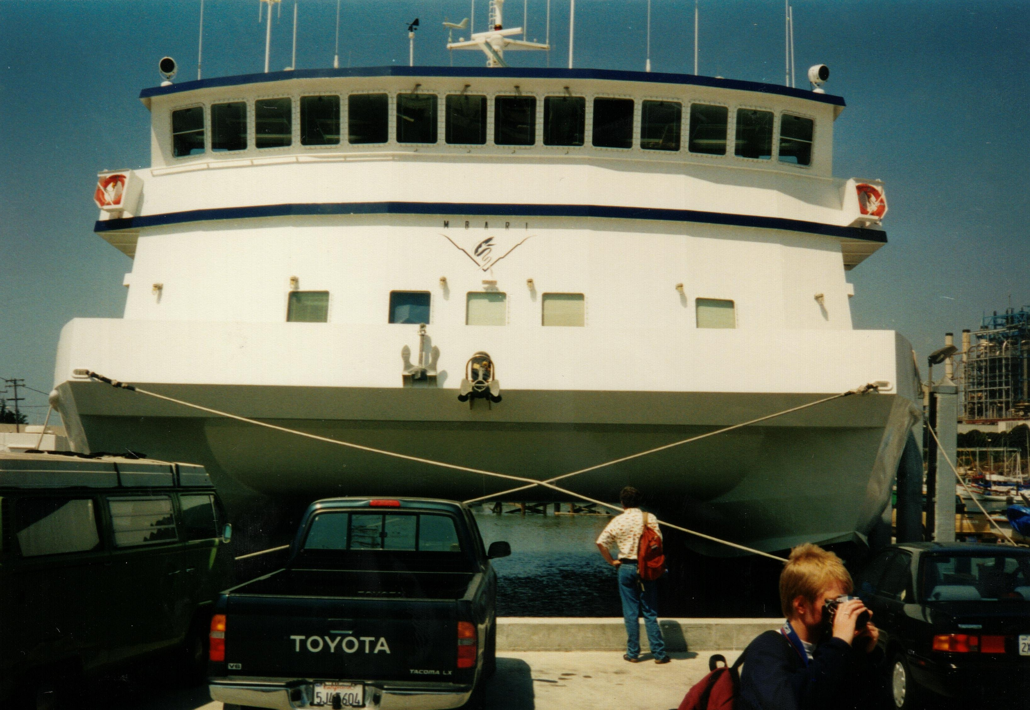 Monterey Bay Aquarium Research Institute (MBARI) research vesselWestern Flyer in Moss Landing, California, United States.